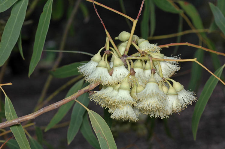 Flowers and foliage of Eucalyptus beardiana growing in Kings Park, Perth